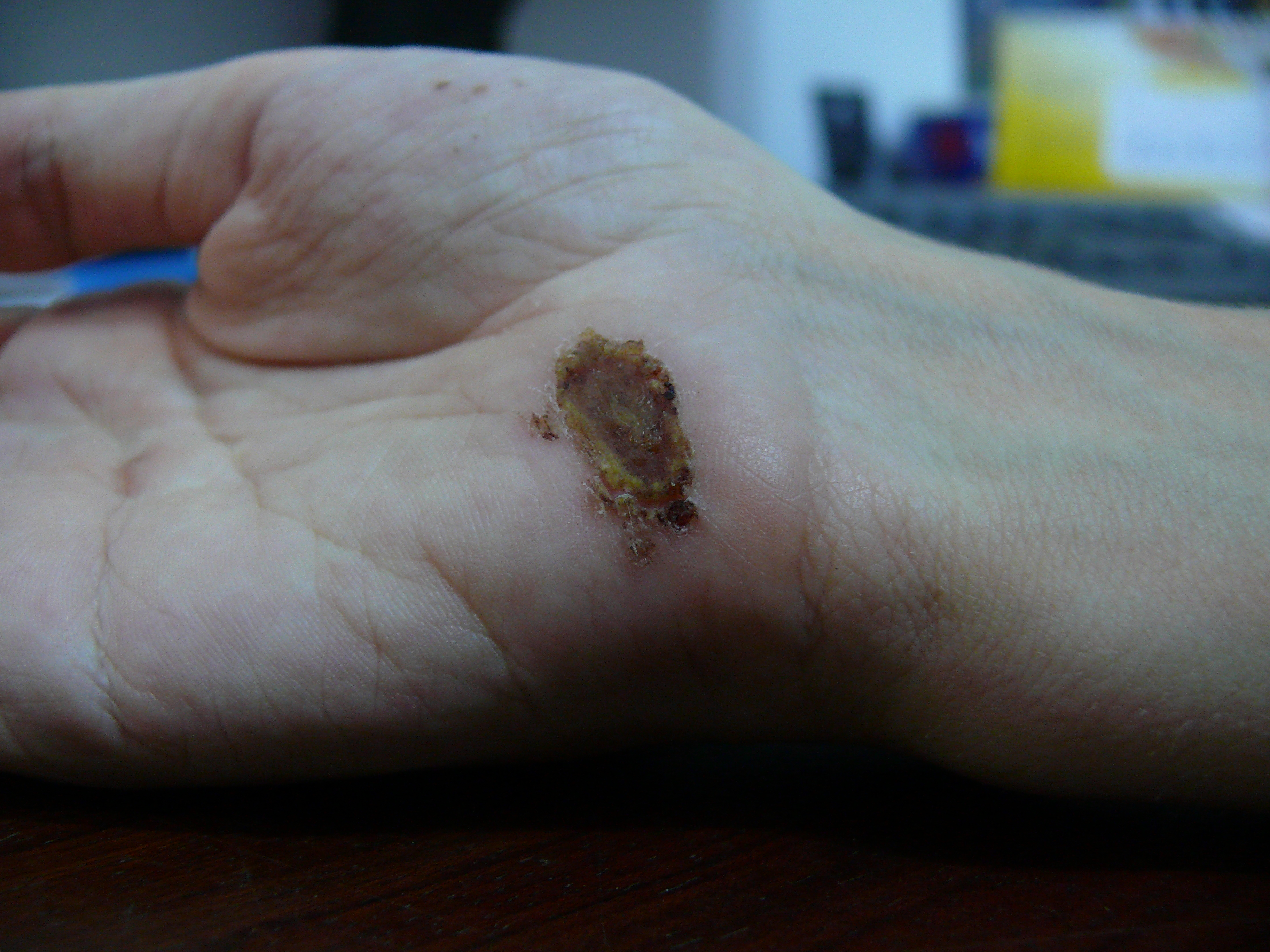 Wound on palm of hand 11 days after falling off a bike onto concrete. Previous photos: Day 1: Image:Wound on palm of hand.jpg Day 2: Image:Wound on palm of hand - day 2.jpg Day 3: Image:Wound on palm of hand - day 3.jpg Day 4: Image:Wound on palm of hand - day 4.jpg Day 5: Image:Wound on palm of hand - day 5.jpg Day 6: Image:Wound on palm of hand - day 6.jpg Day 7: Image:Wound on palm of hand - day 7.jpg Day 8: Image:Wound on palm of hand - day 8.jpg Day 9: Image:Wound on palm of hand - day 9.jpg Day 10: Image:Wound on palm of hand - day 10.jpg Following photos: Day 12: Image:Wound on palm of hand - day 12.jpg Day 13: Image:Wound on palm of hand - day 13.jpg Day 14: Image:Wound on palm of hand - day 14.jpg Day 15: Image:Wound on palm of hand - day 15.jpg Day 16: Image:Wound on palm of hand - day 16.jpg Day 17: Image:Wound on palm of hand - day 17.jpg Day 18: Image:Wound on palm of hand - day 18.jpg Day 19: Image:Wound on palm of hand - day 19.jpg Day 20: Image:Wound on palm of hand - day 20.jpg